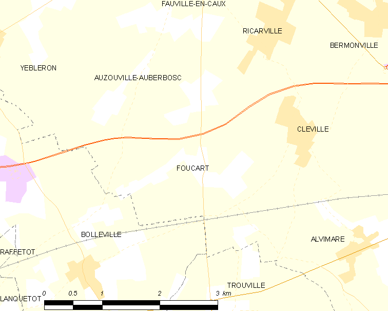 Map of French municipality Foucart